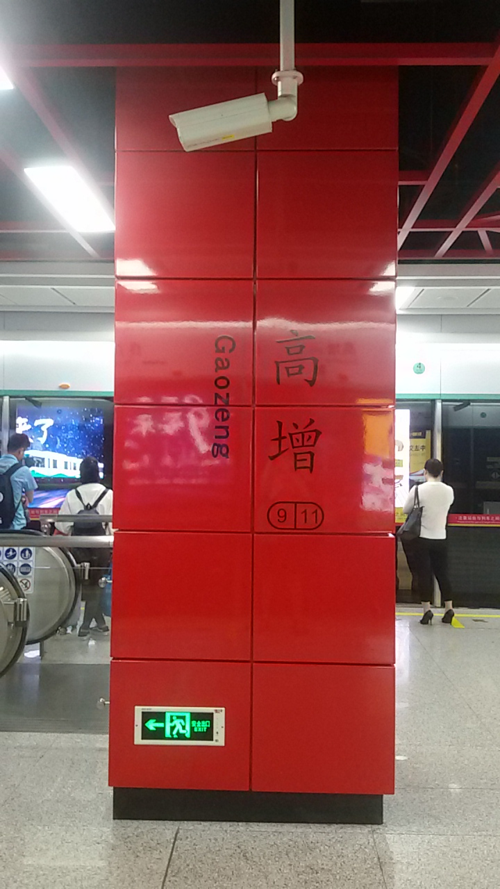 WORD on PILLAR for Line 9 at Gaozeng Station in Guangzhou Metro.